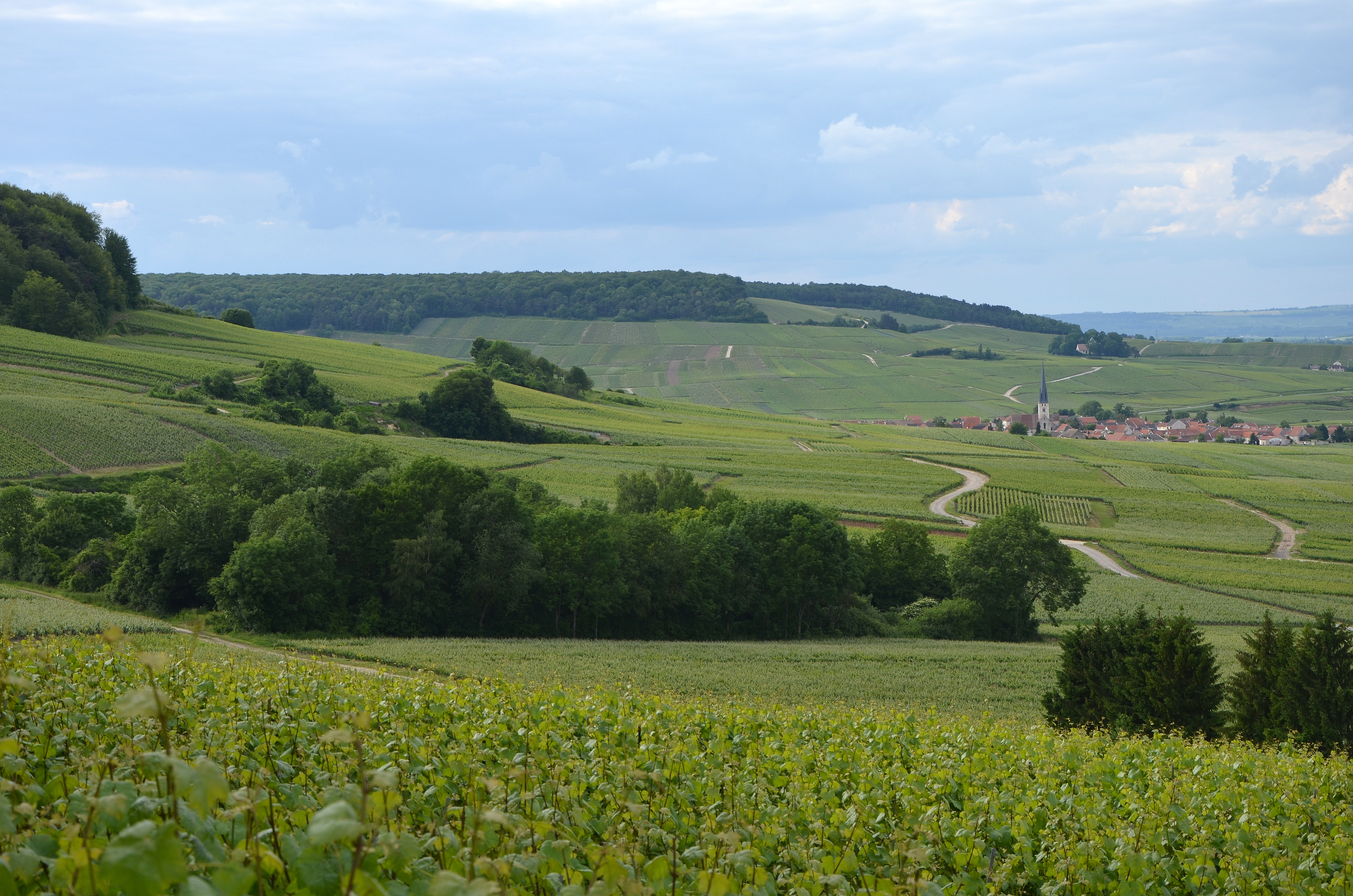 Vineyards on the northern flank of the Montagne de Reims, Marne, France. The village in the background is Chamery.